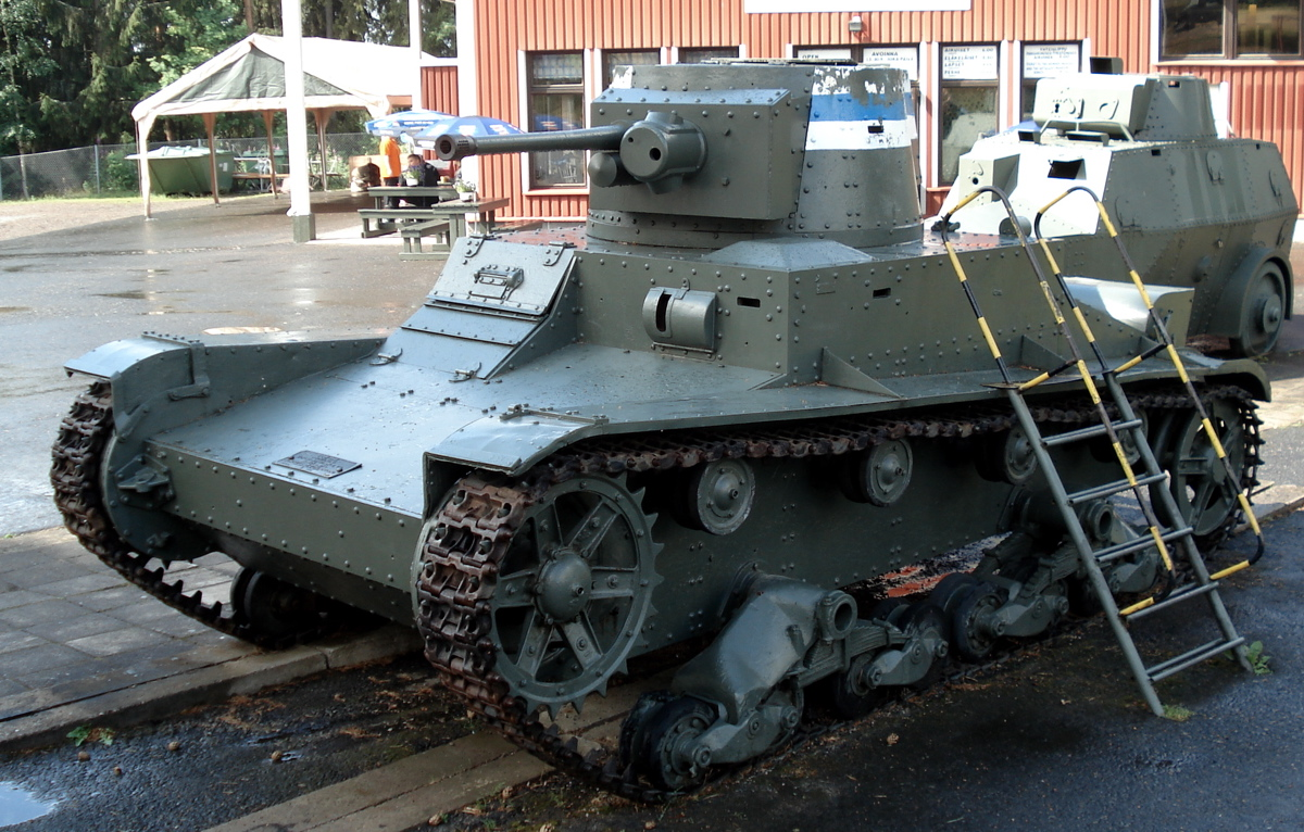 Finnish 6-ton Vickers tank, manufactured in Britain in 1938. This tank has the Bofors 37 mm gun, in contrast to many Vickers tanks in Finnish service which were upgunned with the Soviet 45 mm gun during the war. The blue-white stripes were used as identification during the Winter War, presumably to distinguish the tanks from very similar looking Soviet T-26s. Displayed in Finnish Tank Museum (Panssarimuseo) in Parola. Photo taken on July 14, 2006. Source: Photo by me, User:Balcer.